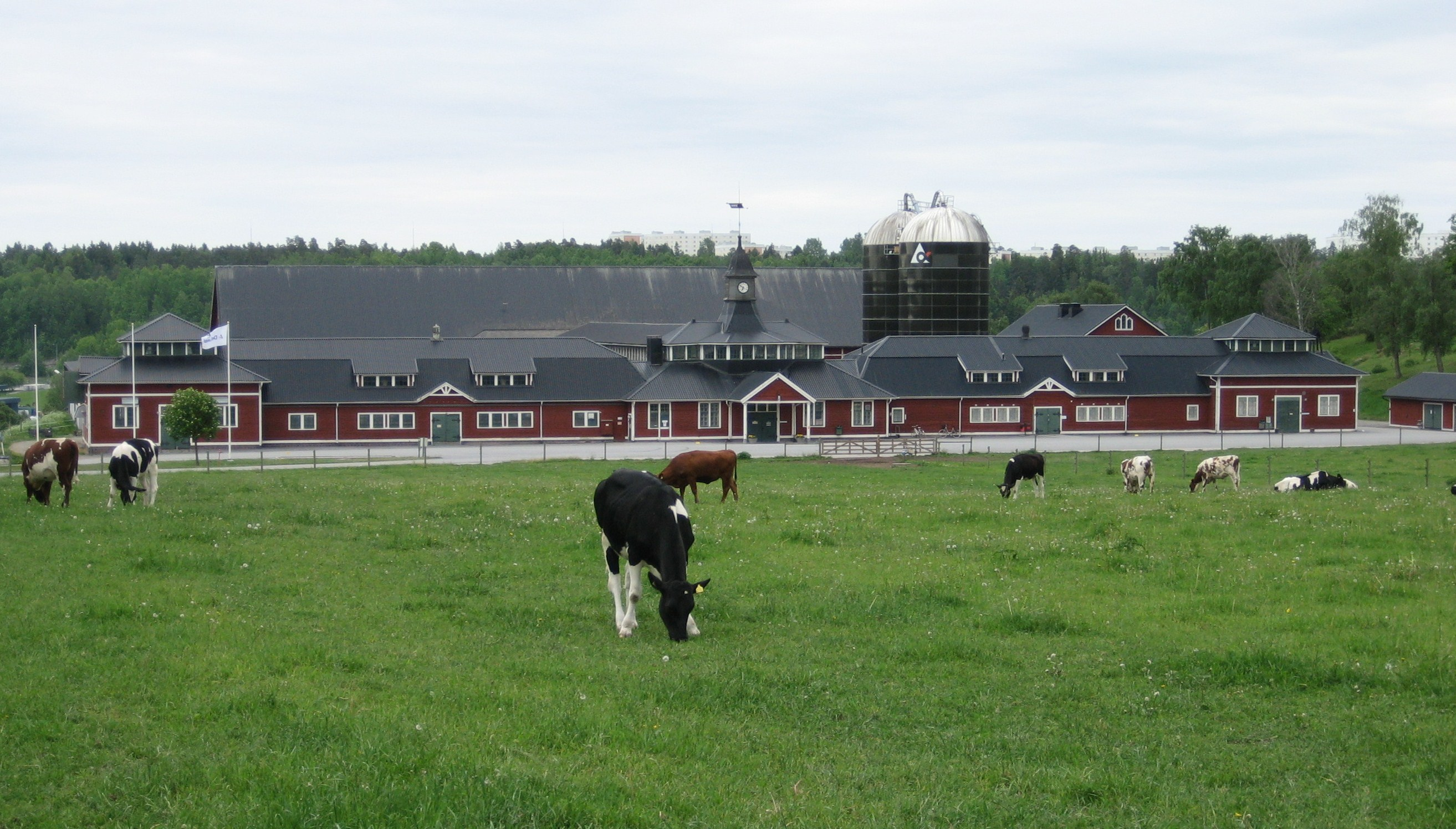 Hamra gård in Tumba, south of Stockholm, Sweden. The farm is a test farm for DeLaval milking equipment.